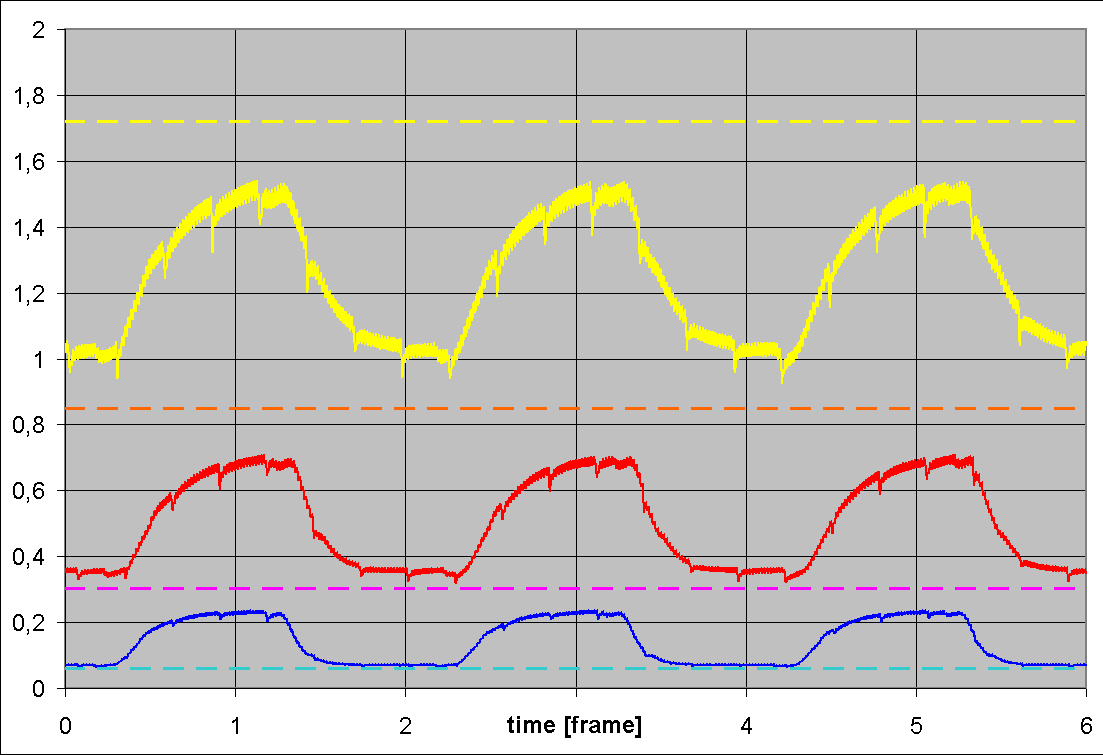 When the test pattern submitted to an LCD-monitor is periodically changed every single frame, the optical response is usually not settling to the steady state because the transitions take too long. This illustration shows the difference between the periodic impulse response between various states of gray and the corresponding stationary states (dashed horizontal lines).